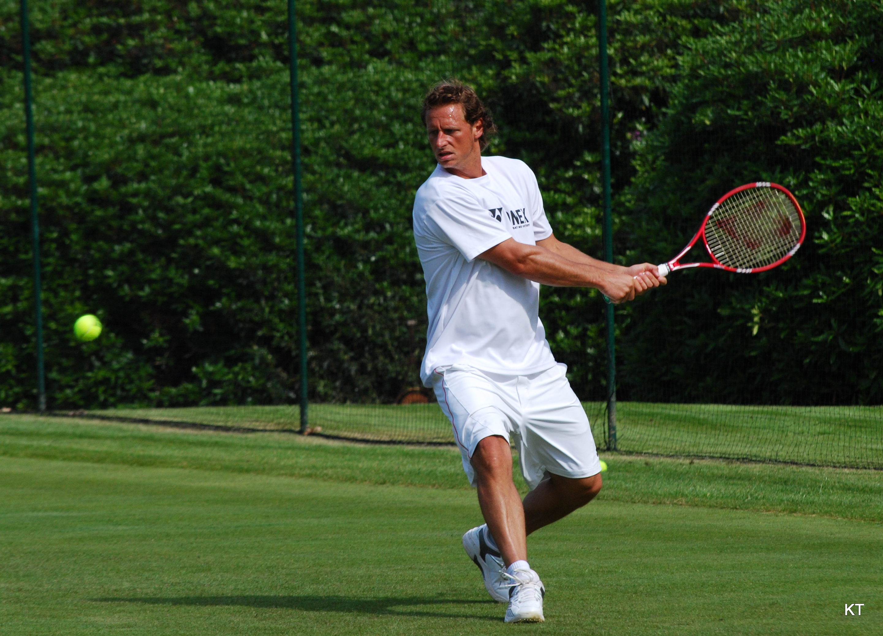 Practising before his first match. The Boodles, Stoke Park, 2011.